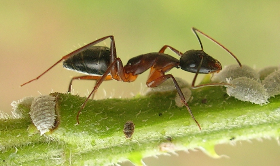 Ant tending scale insects. Photo by L. Shyamal